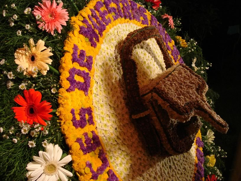 Feria de las Flores, Medellin Colombia. Fair of the Flowers